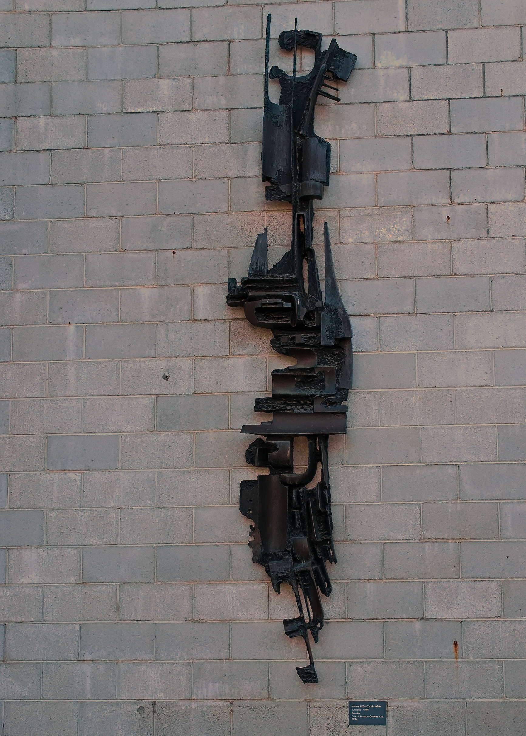 Untitled 1964 bronze sculpture mounted on the wall of the McClelland Gallery and Sculpture Park.